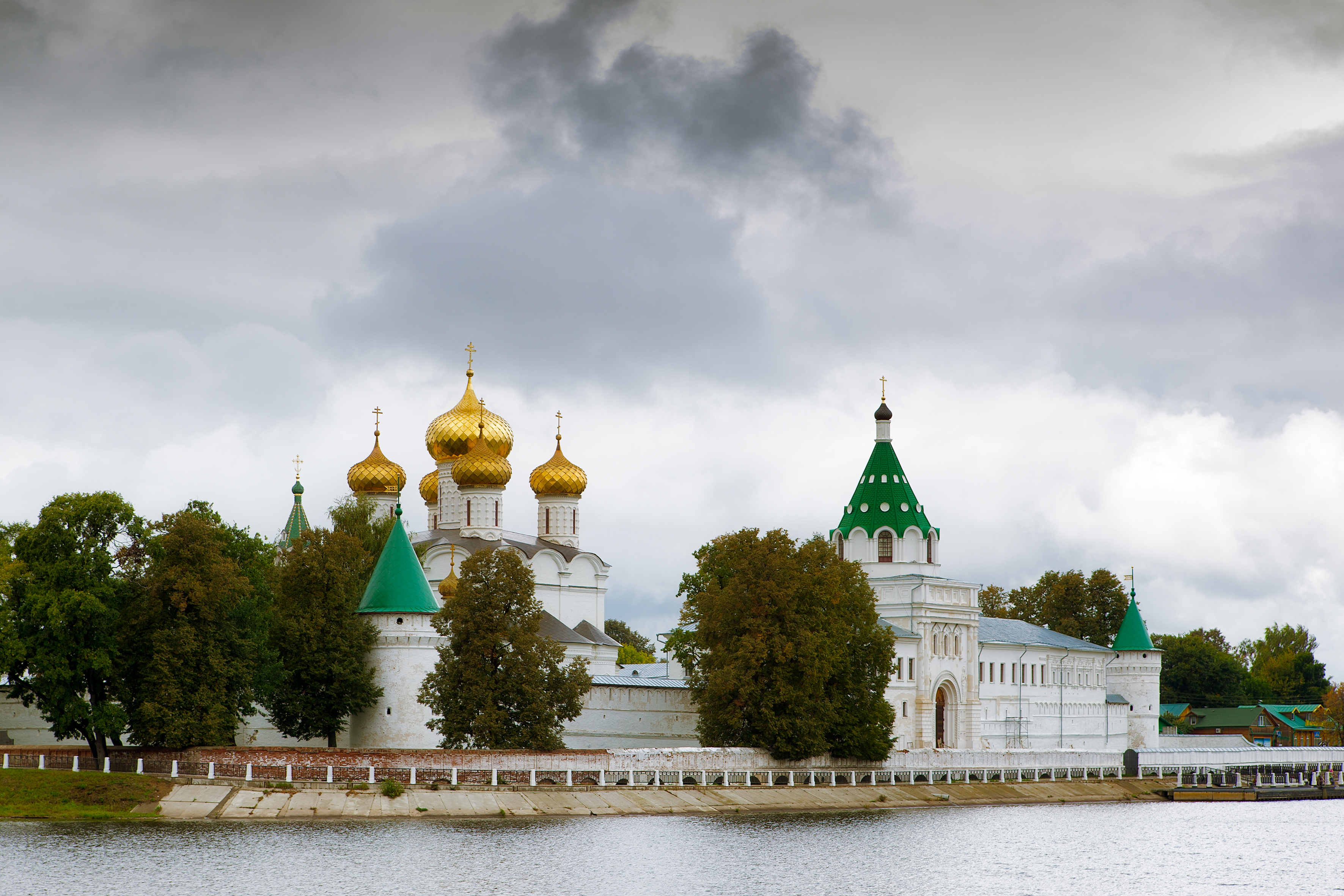 View to the Ipatiev monastery from Volga river